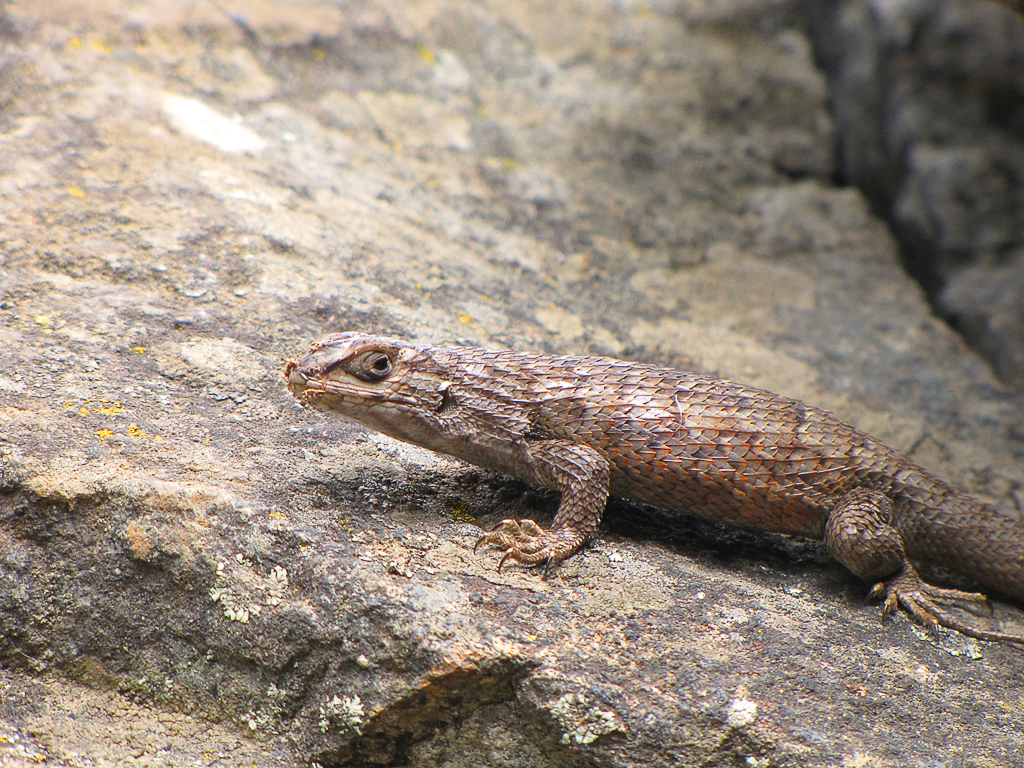 Liolaemus nitidus in La Campana National Park